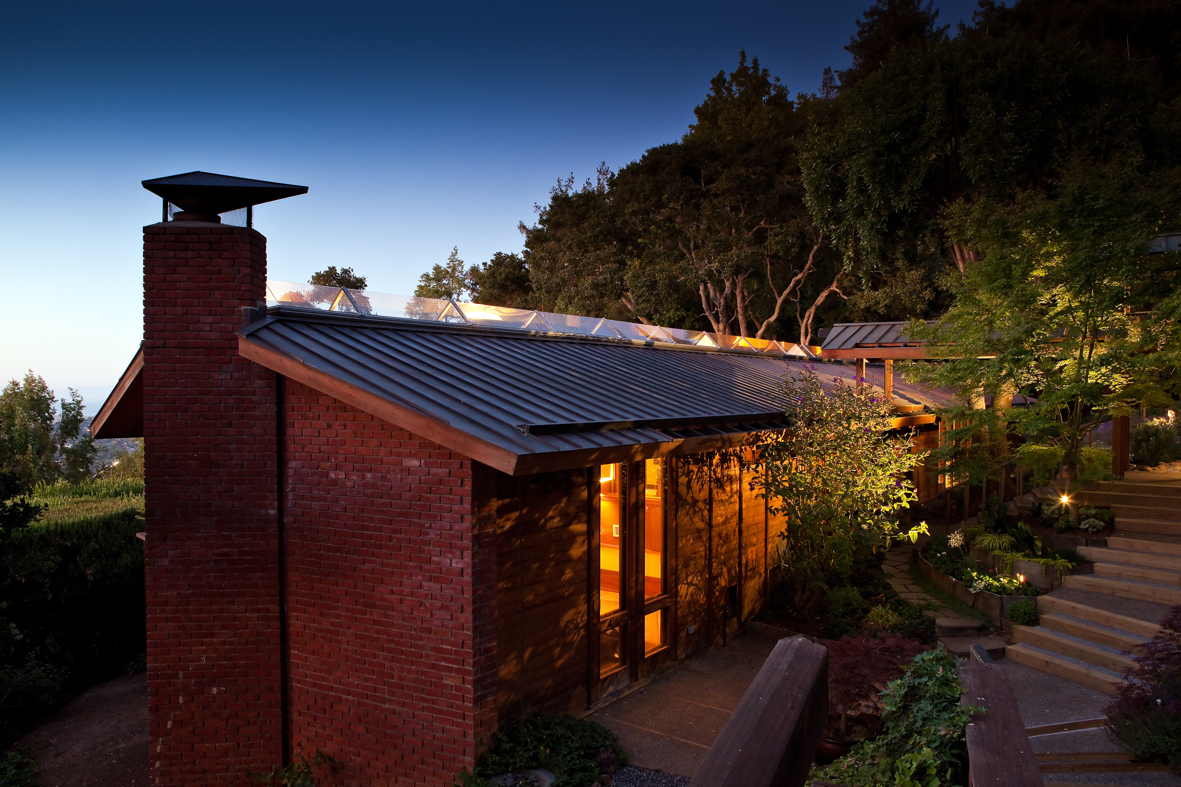 View #1 of 1966 San Rafael, California Home Designed by Architect Henrik H. Bull.